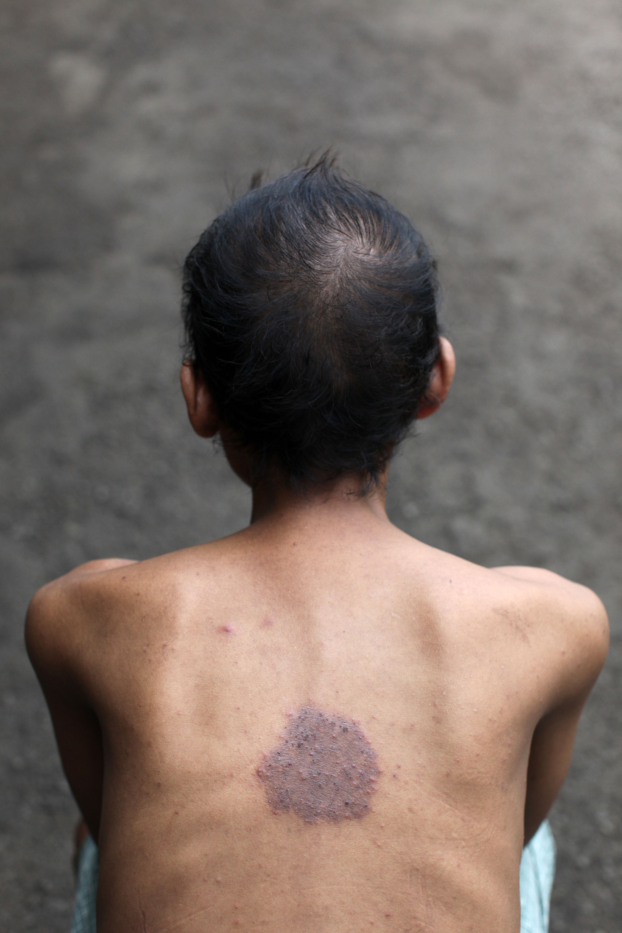 HIV positive prisoner in Cipinang Narcotics Prison, Jakarta. Photo by: Josh Estey to request a high resolution original.